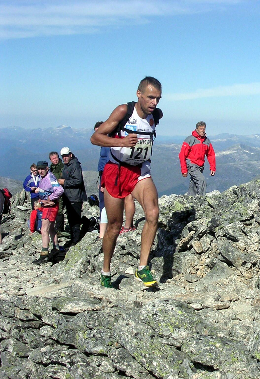 The Norwegian mountain runner and orienteer Jon Tvedt in the competition Skåla Opp, Norway.